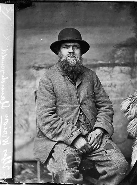 1 negative : glass, wet collodion, b&w ; 11 x 8.5 cm.